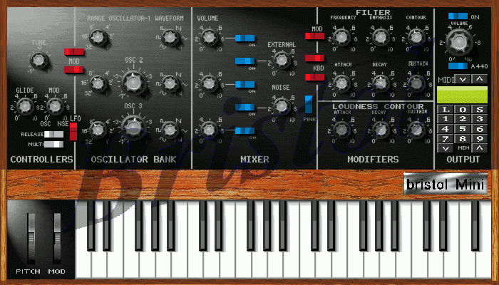 Output from the Brighton Mini emulation.